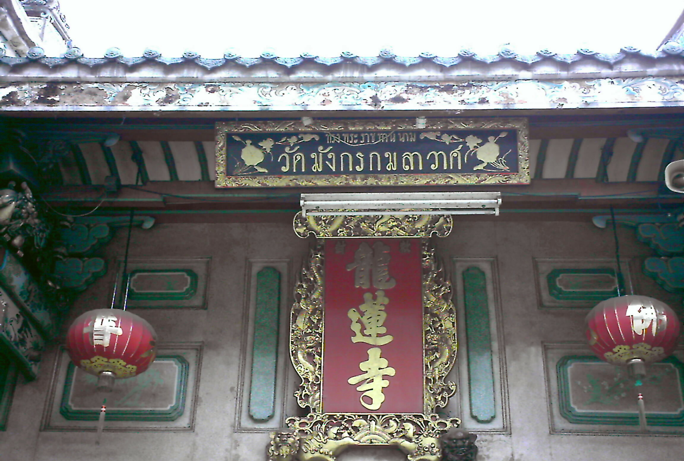 Wat Mangkon Kamalawat, Bangkok, Thailand 中文（香港）: 近觀 泰國 曼谷 龍蓮寺